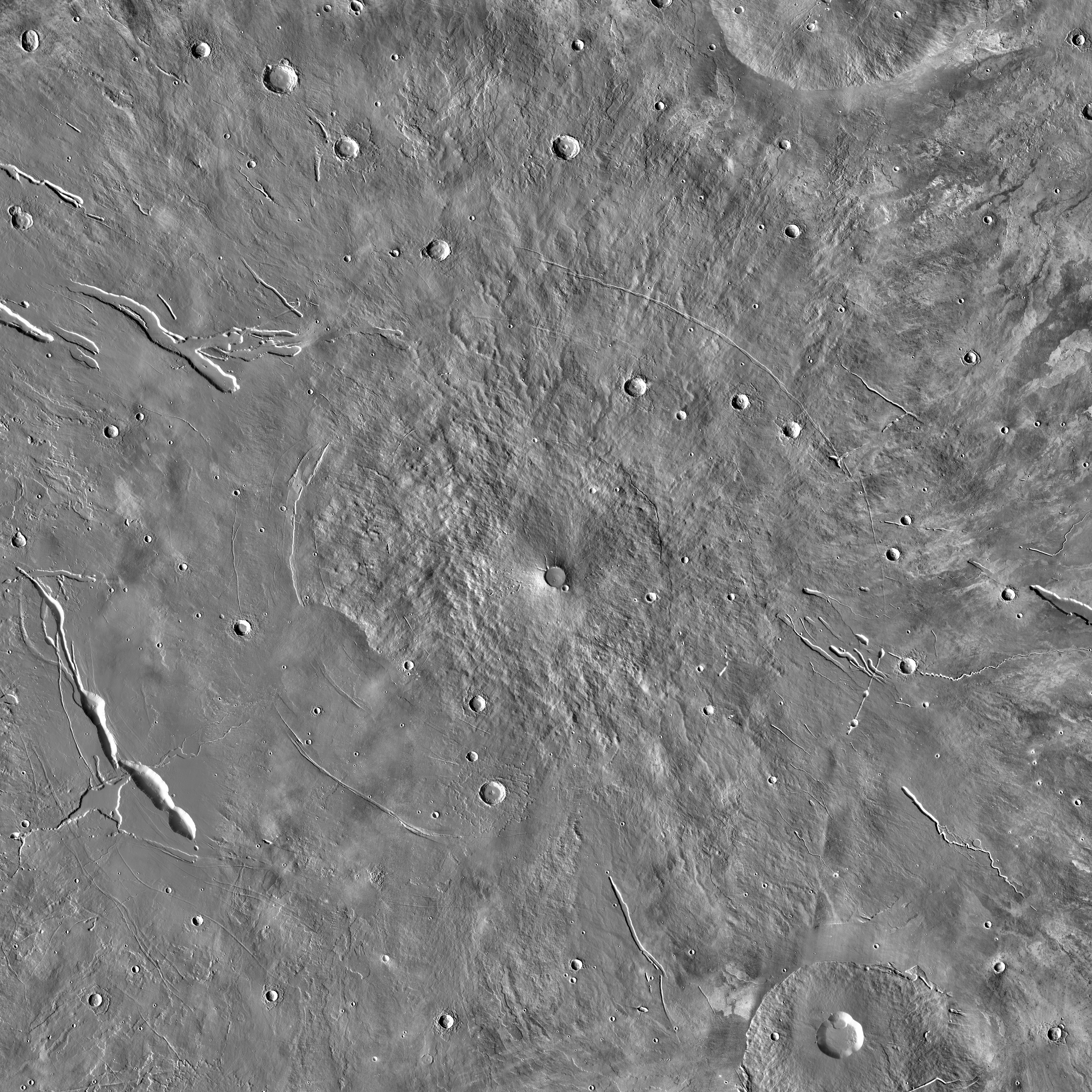 A daytime infrared image mosaic of Elysium Mons from the Thermal Emission Imaging System (THEMIS) instrument of the 2001 Mars Odyssey spacecraft. Elysium Mons is the largest volcano in Elysium, a volcanic region on Mars. The smaller volcanoes Hecates Tholus and Albor Tholus are partially visible to the upper and lower right, respectively.